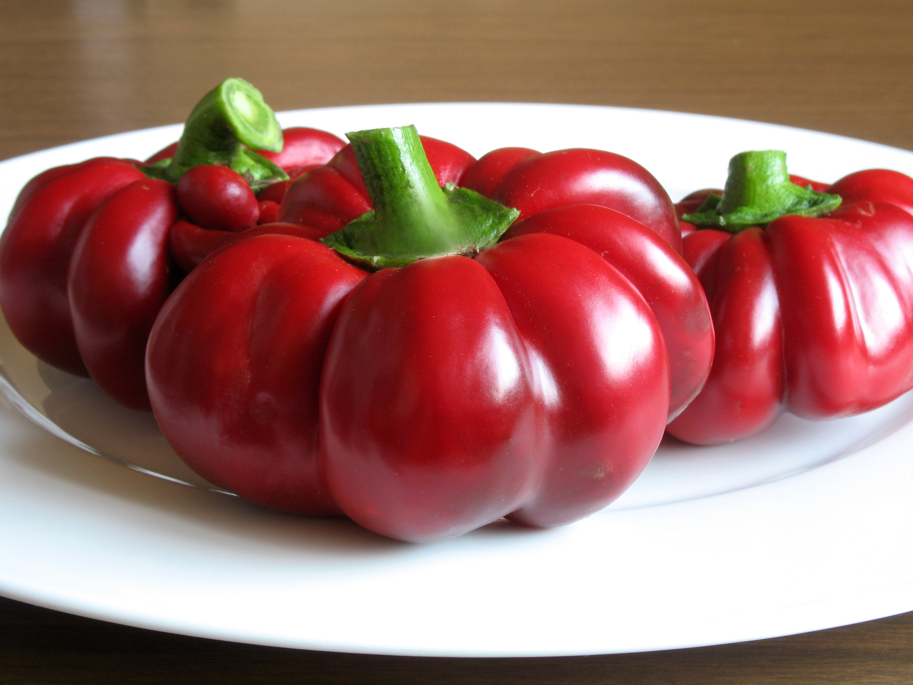 Capsicum annuum